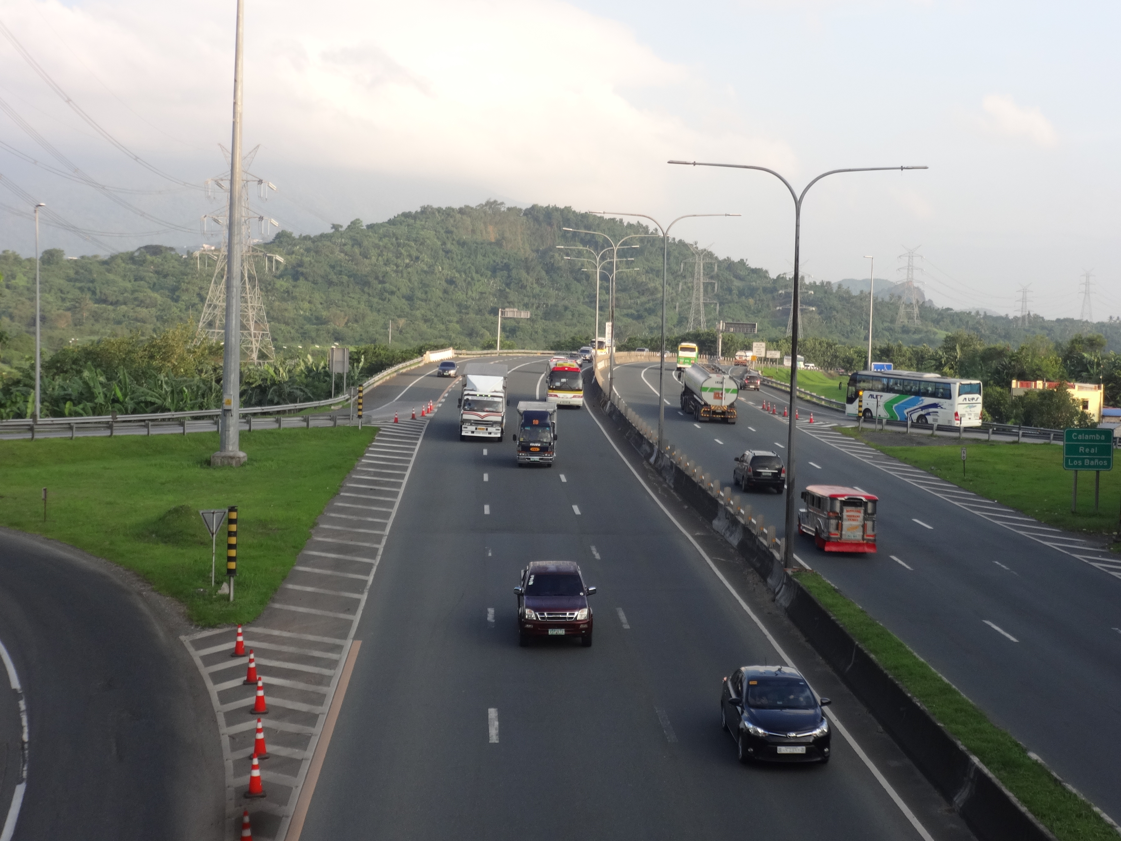 South Luzon Expressway (SLEX) in Calamba City, Laguna